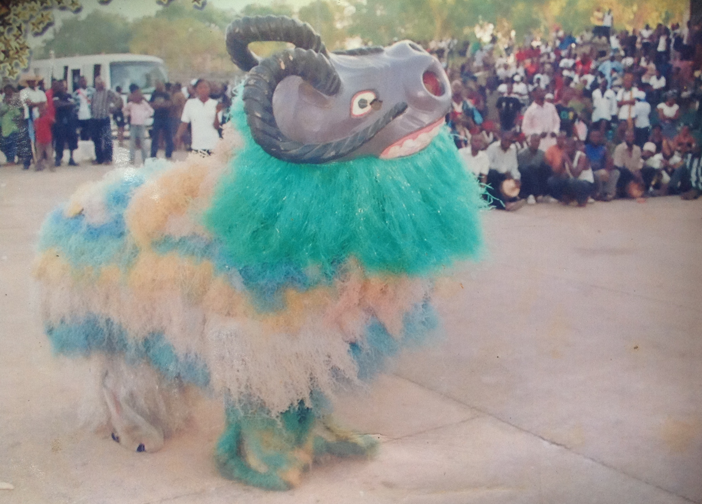 Kwagh-hir is a UNESCO Intangible Cultural Heritage of Humanity